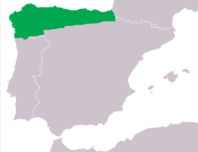 Distribution of Vipera seoanei, Map made by Achim Raschka, using Image:Blank-peninsula Iberica.png.